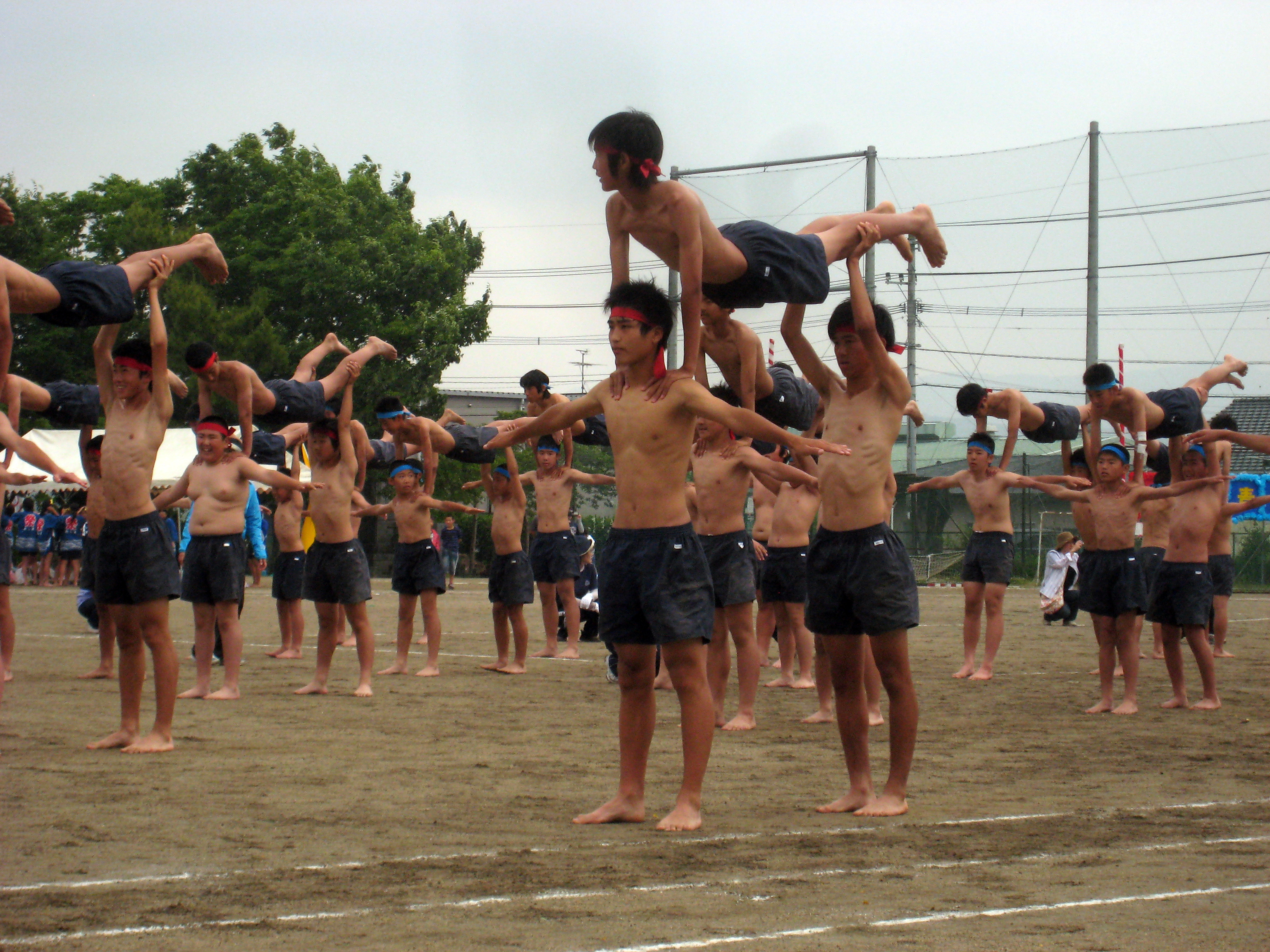 Every school in Japan holds an undokai once a year, and this events is preceded by weeks of preparation and practice. The actual sports day is a combination of ceremony, theatrics, and competition all performed with strict discipline. It's a lot of fun to watch!